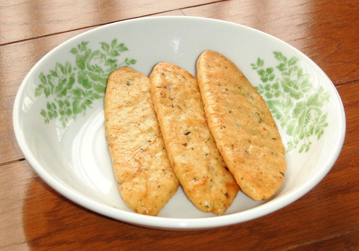 Aonori flavored Bakauke made by Kuriyama Beika.